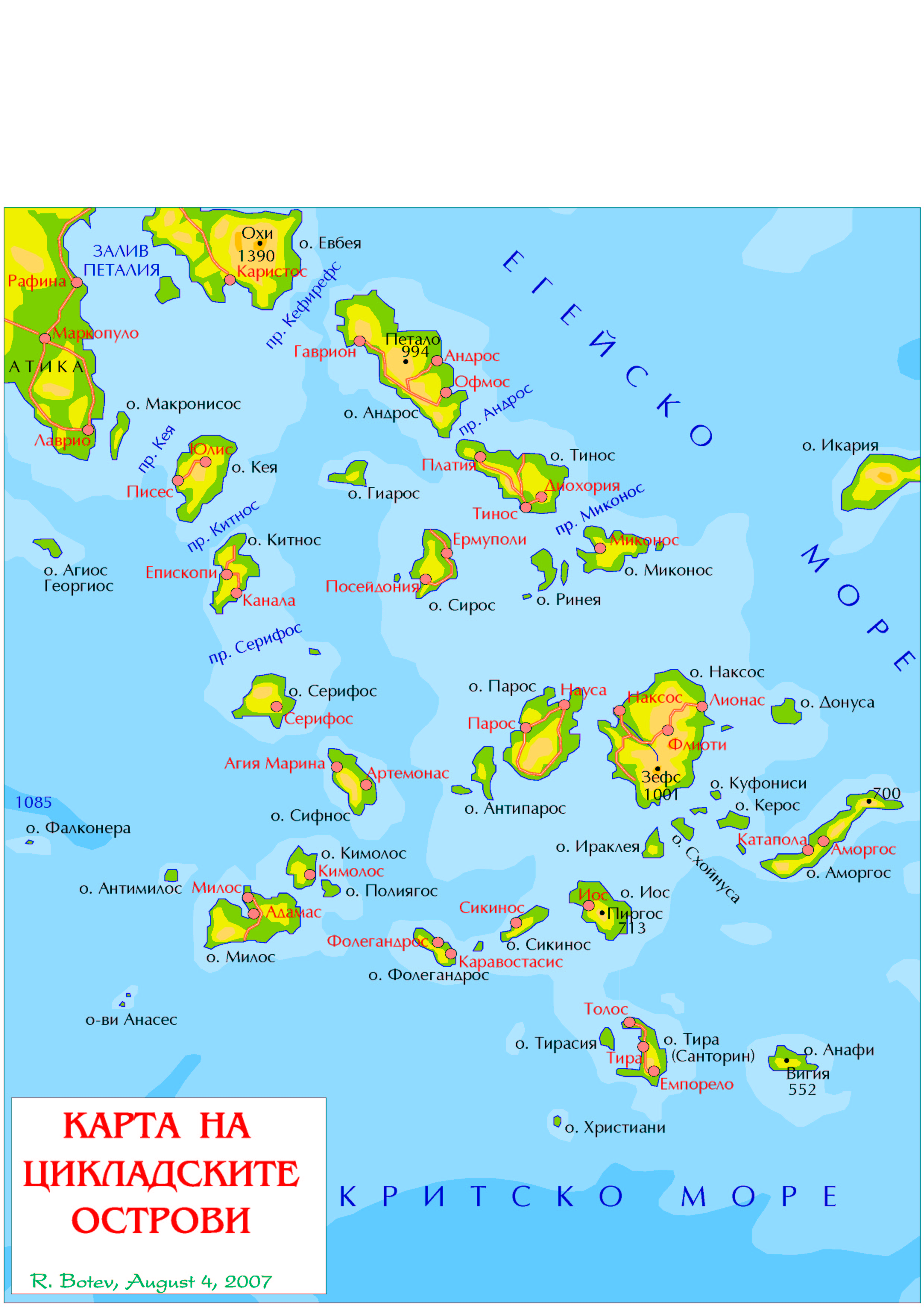 Map of Cylades (in Bulgarian)